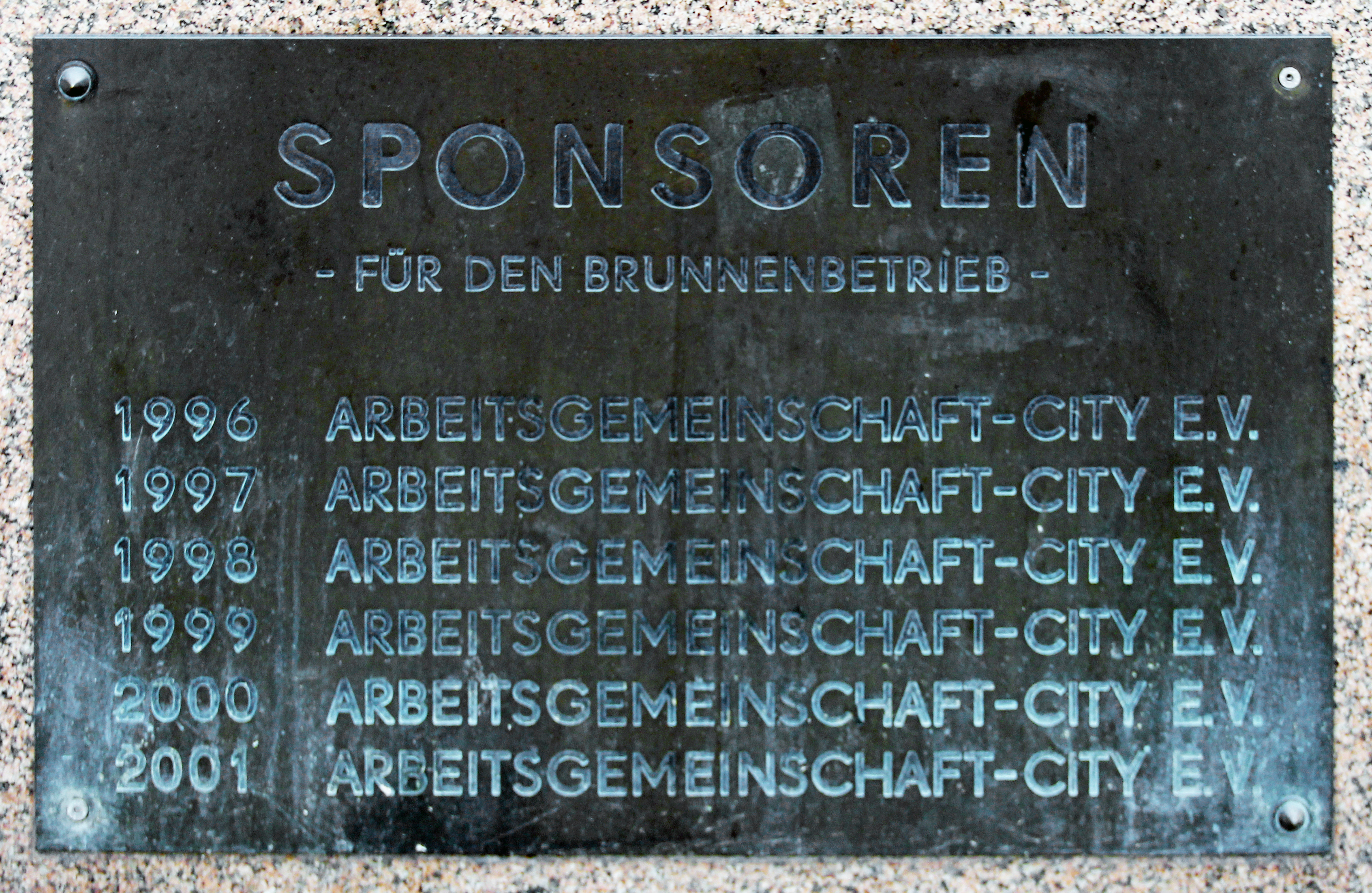 Memorial plaque, Weltkugelbrunnen, Breitscheidplatz, Berlin-Charlottenburg, Deutschland